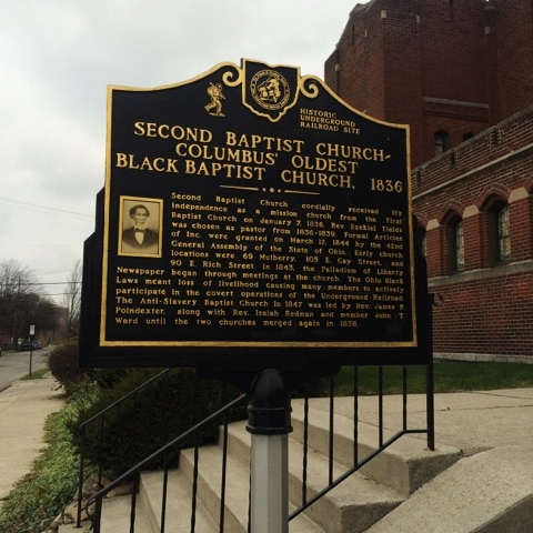 Second Baptist Church